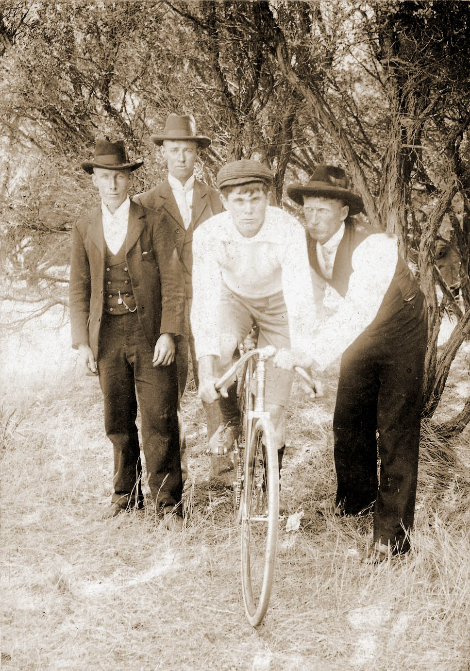 "Three men and a boy on a bicycle". Photographic print on cabinet card : albumen silver; 17 x 11 cm.